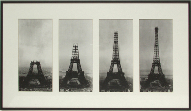 A series of images showing the construction of the Eiffel Tower, 1887-1889.